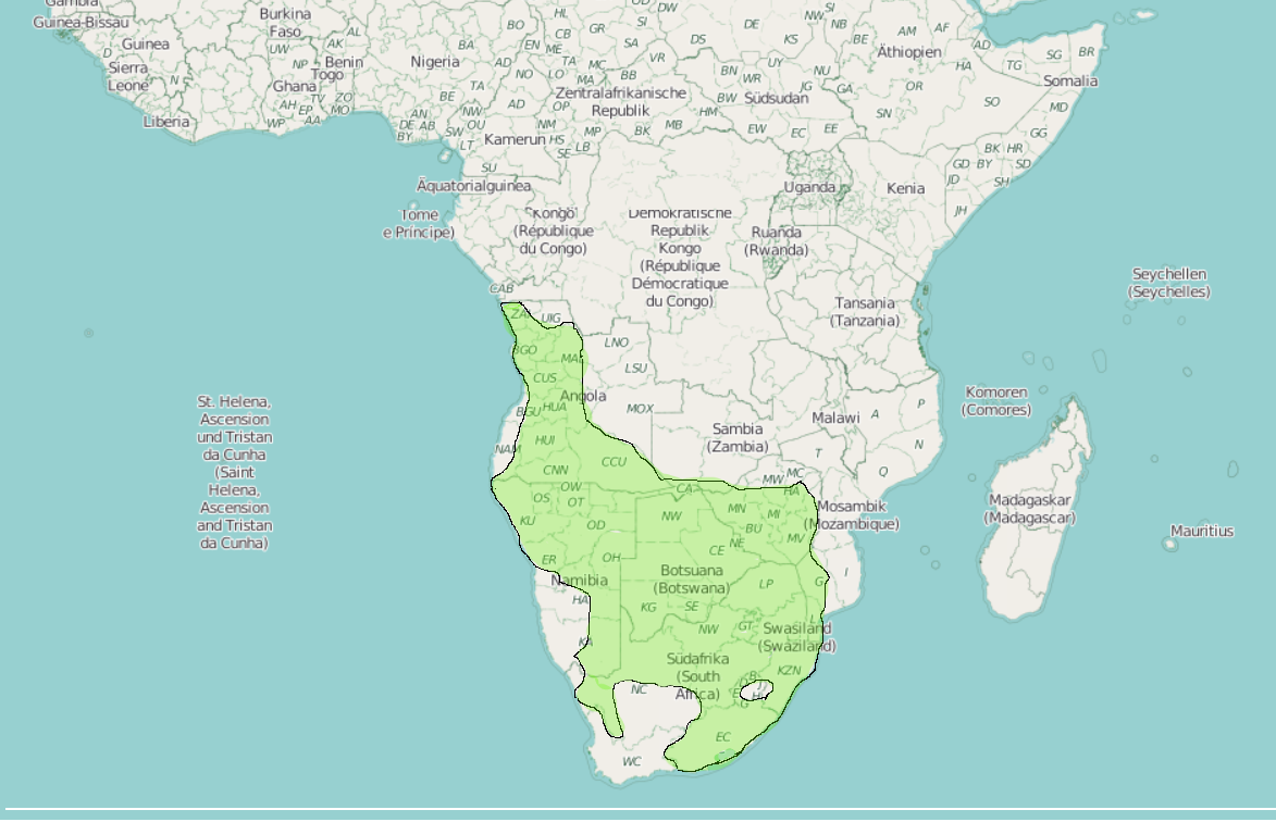 Distribution of the Cape starling (Lamprotornis nitens) in southern Africa